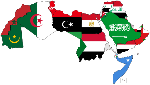 arabic map